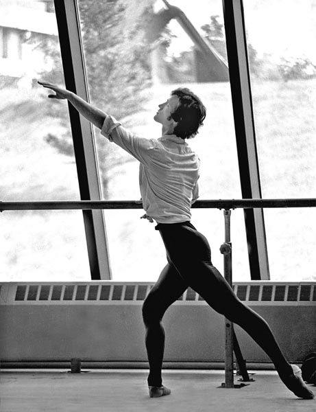 David Peregrine